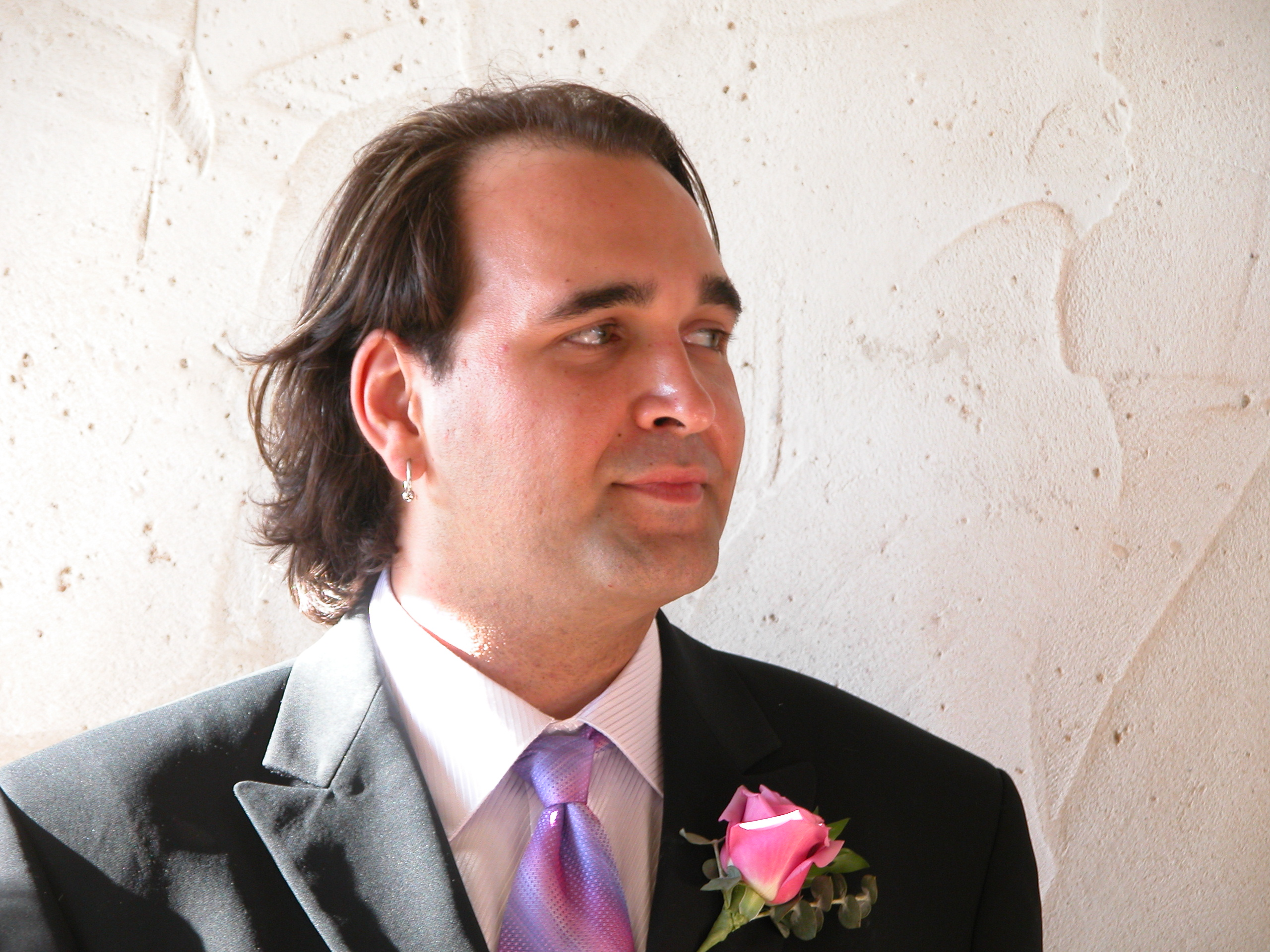 The groom nerviously awaits his bride.